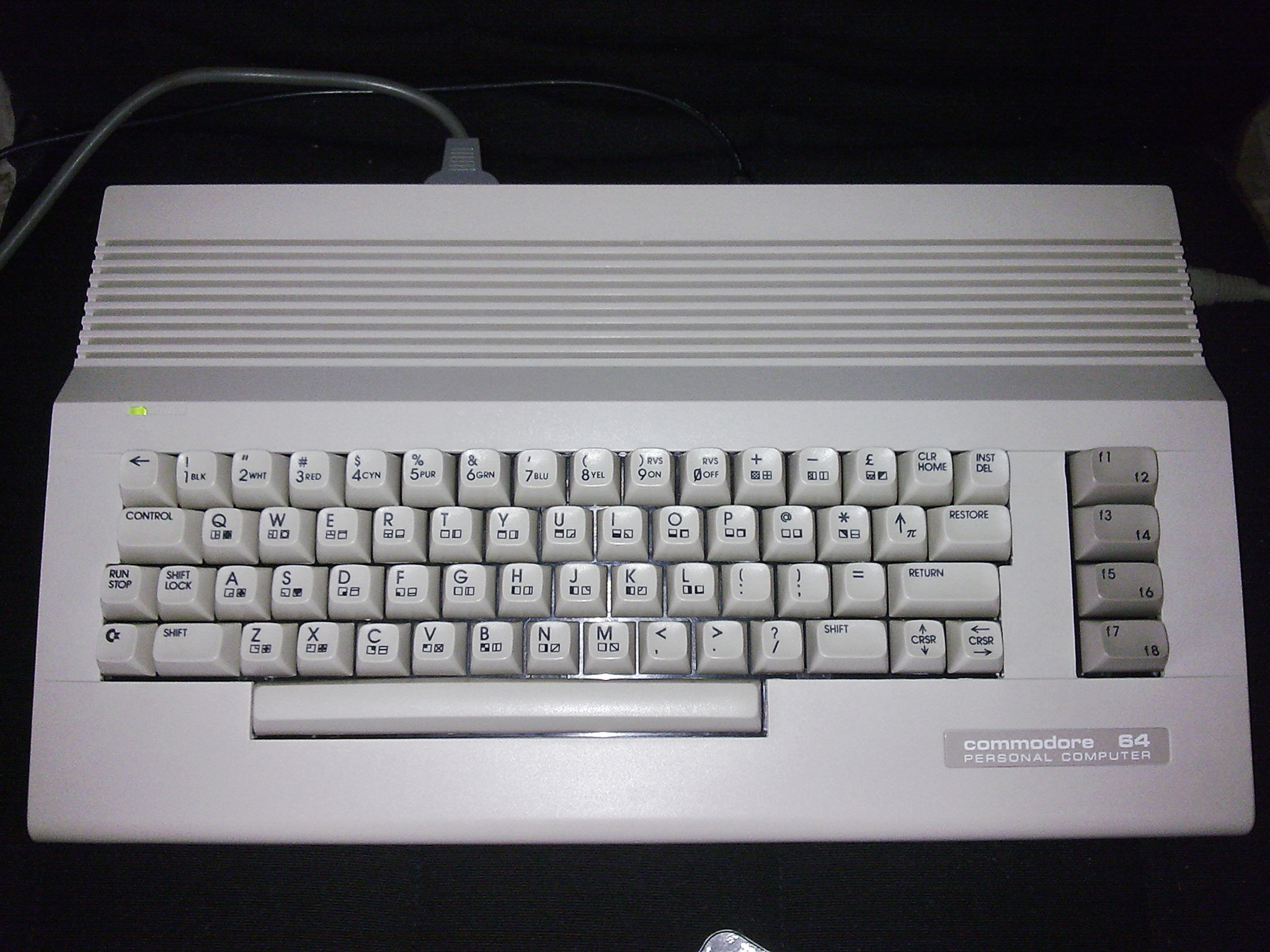 Commodore 64 C Version